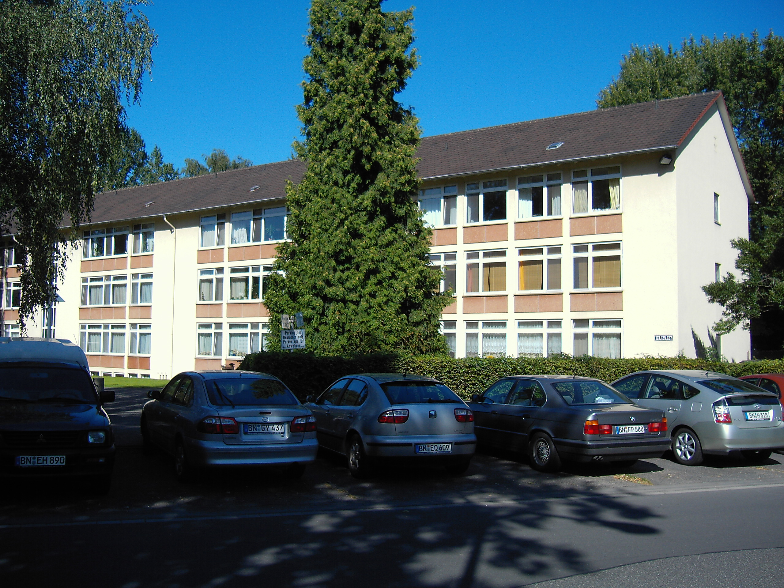 Houses of the HICOG-Siedlung Plittersdorf in Bonn-Plittersdorf.